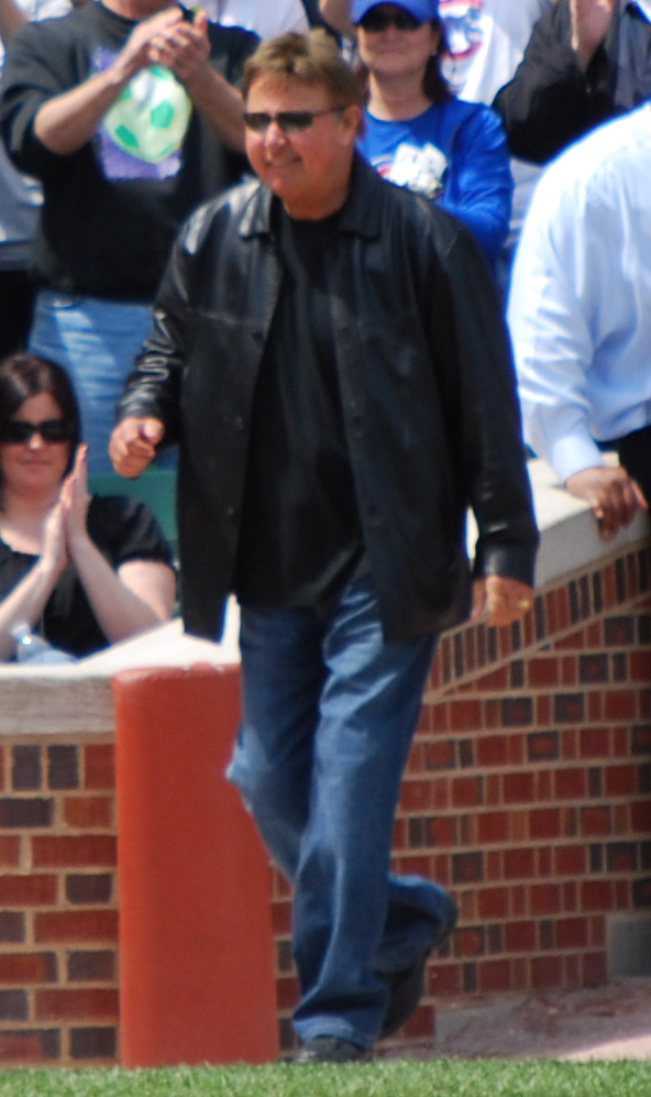 Description Ron SantoSource I created this work entirely by myself.Author ScottRAnselmo (talk) 02:40, 4 May 2009 . . ScottRAnselmo . . 592×997 (224 KB) Ron Santo